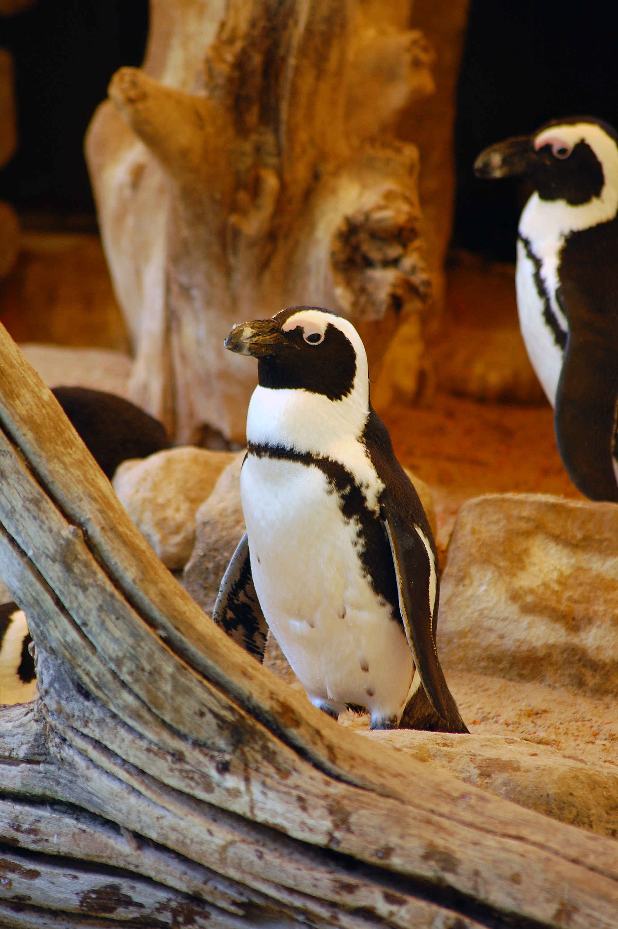 A Jackass Penguin in the Allwetterzoo Münster, Germany.